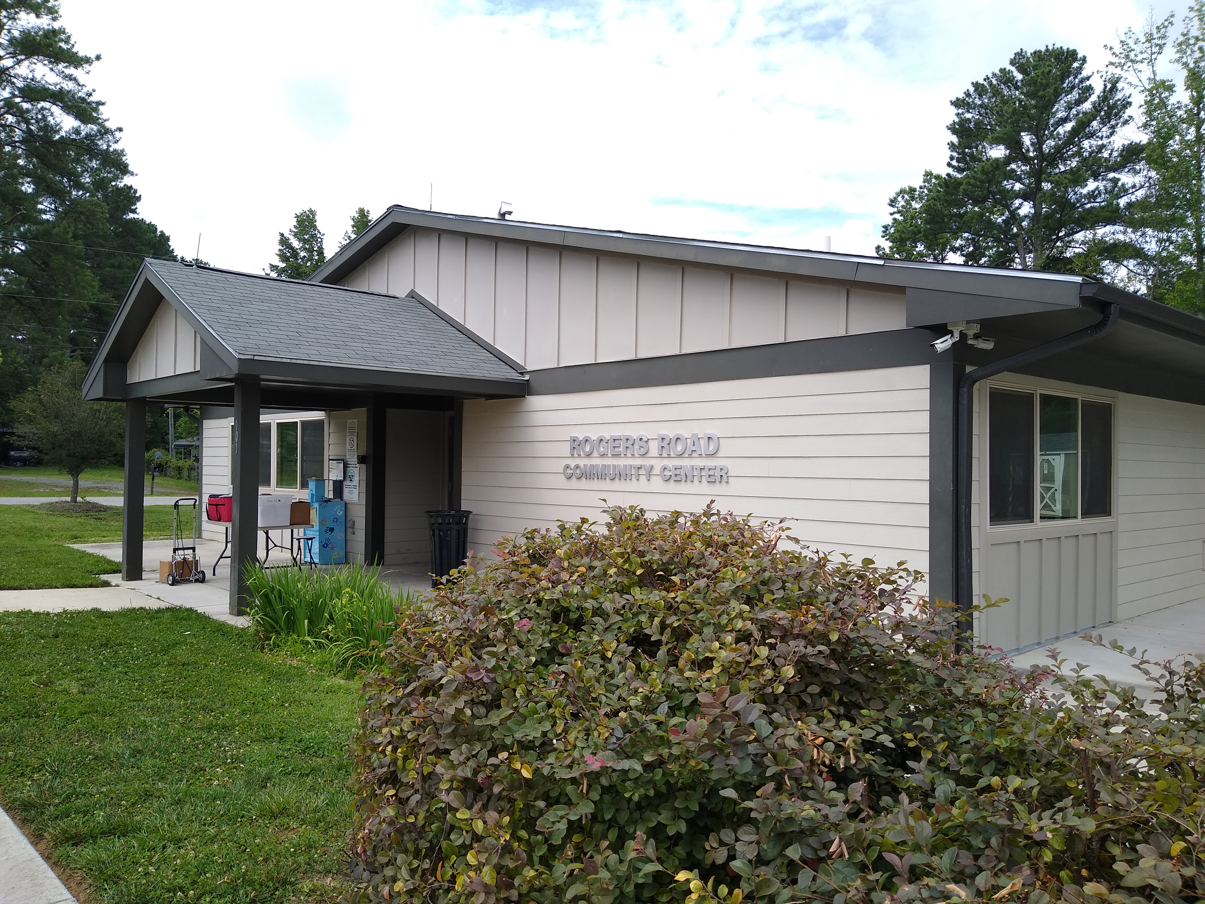 Rogers Road Community Center in Chapel Hill, North Carolina.